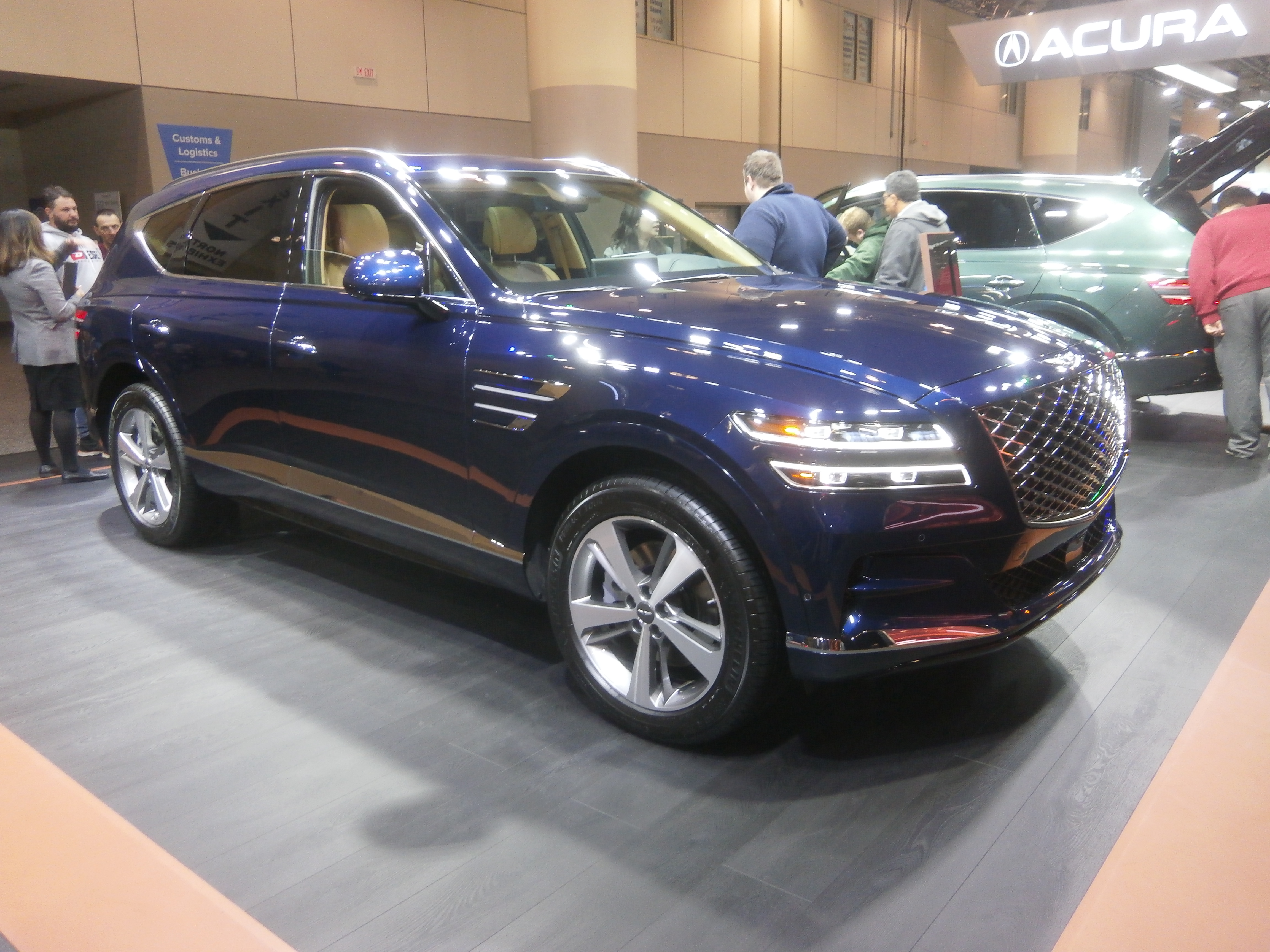 2021 Genesis GV80 photographed at the 2020 Canadian International Auto Show